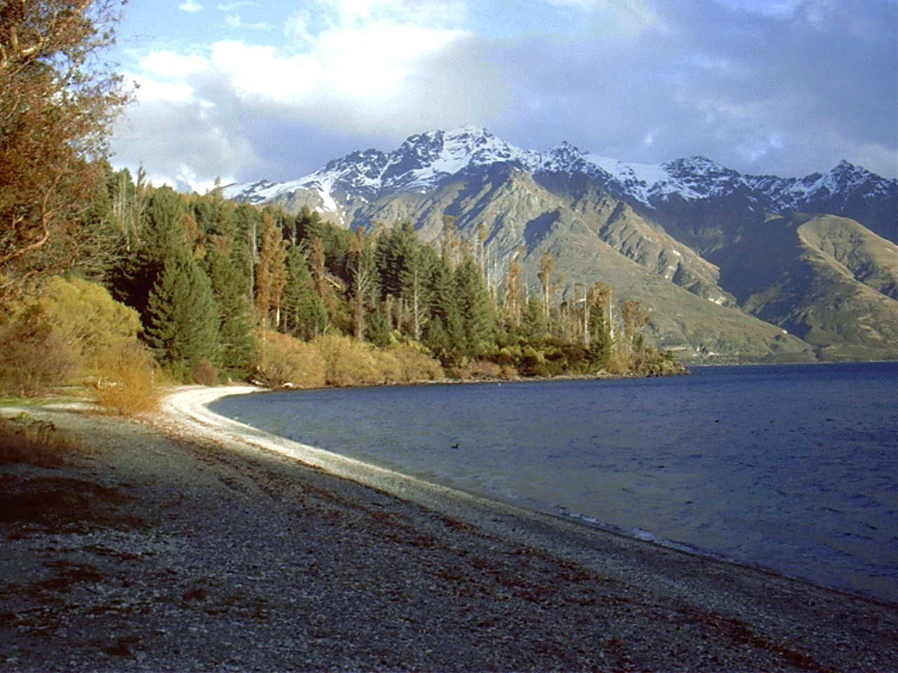 Cecil Peak as viewed from Wilson Bay